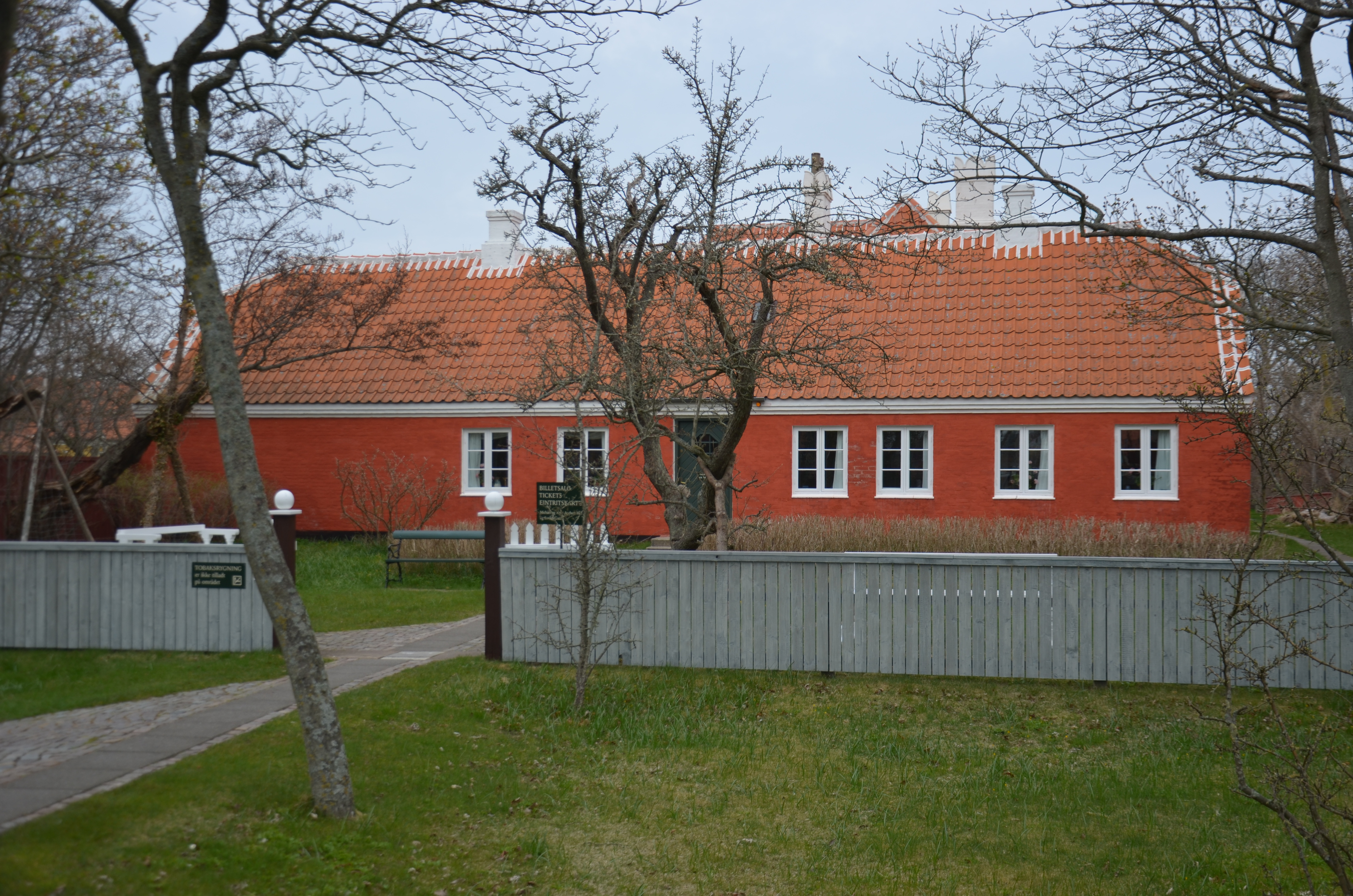 Michael og Anna Anchers hus i Skagen